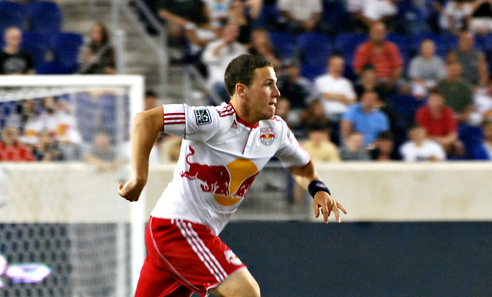 John Rooney substitutes Austin Da Luz in the 84th minute of a soccer match between the New York Red Bulls and The New England Revolution.